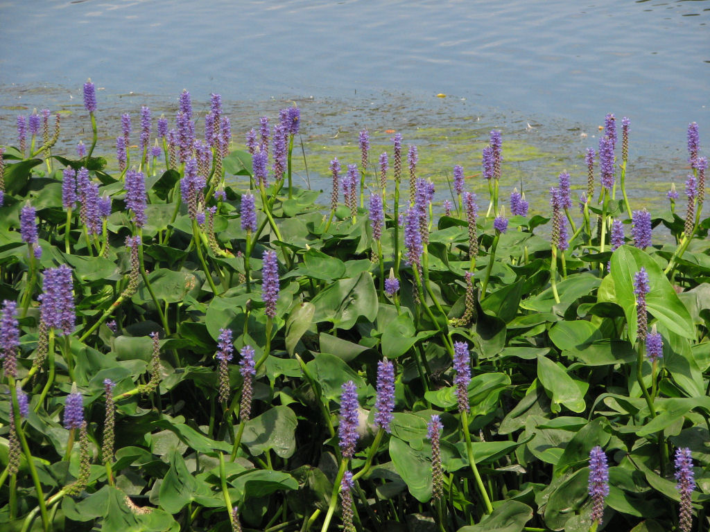 Pickerelweed (Pontederia cordata), along Rideau River, Ottawa, Ontario, Canada